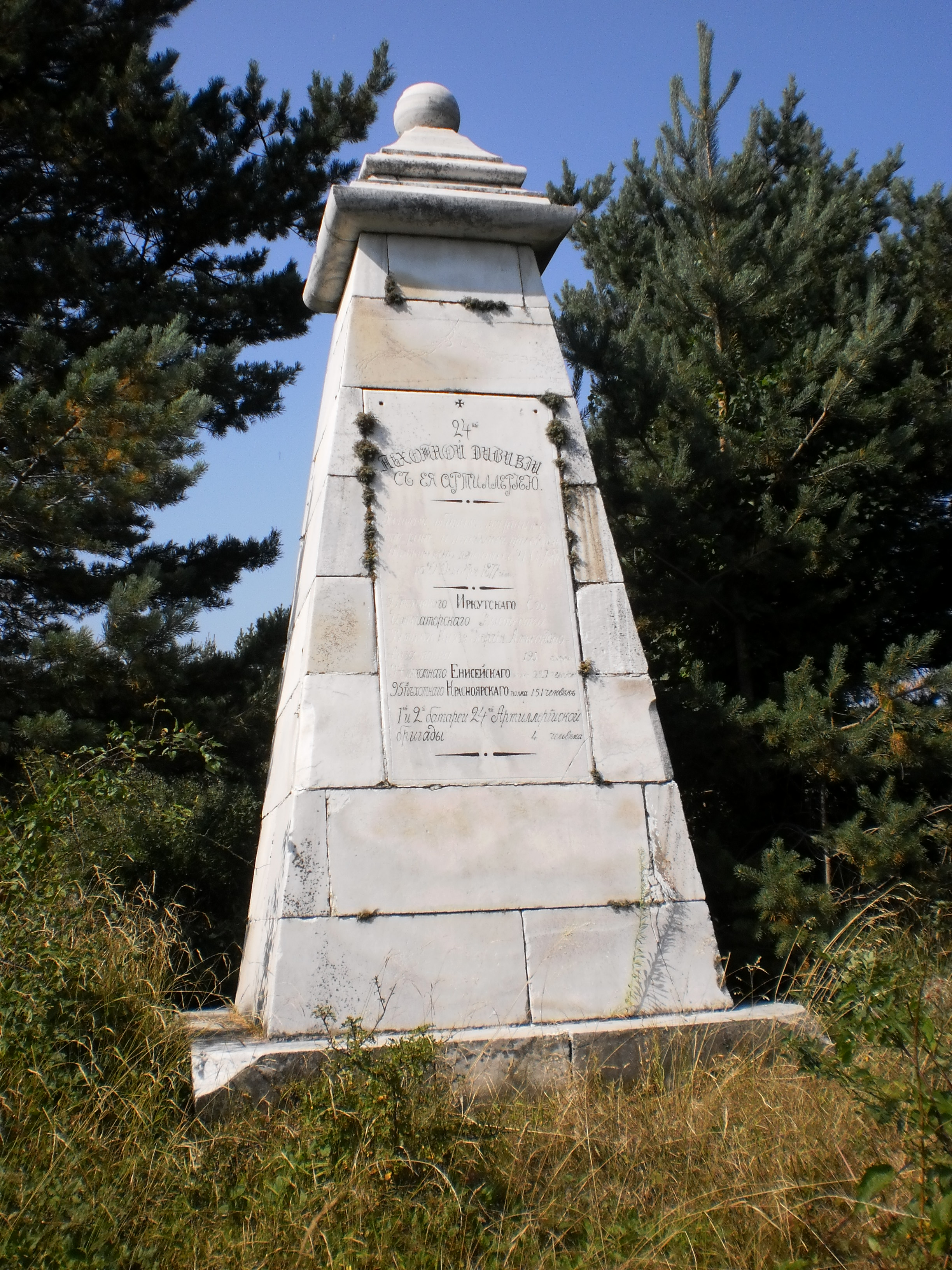 National Park-Museum "Shipka-Buzludzha" Monument to fallen Russian soldiers in the Russo-Turkish War of 1877-1878